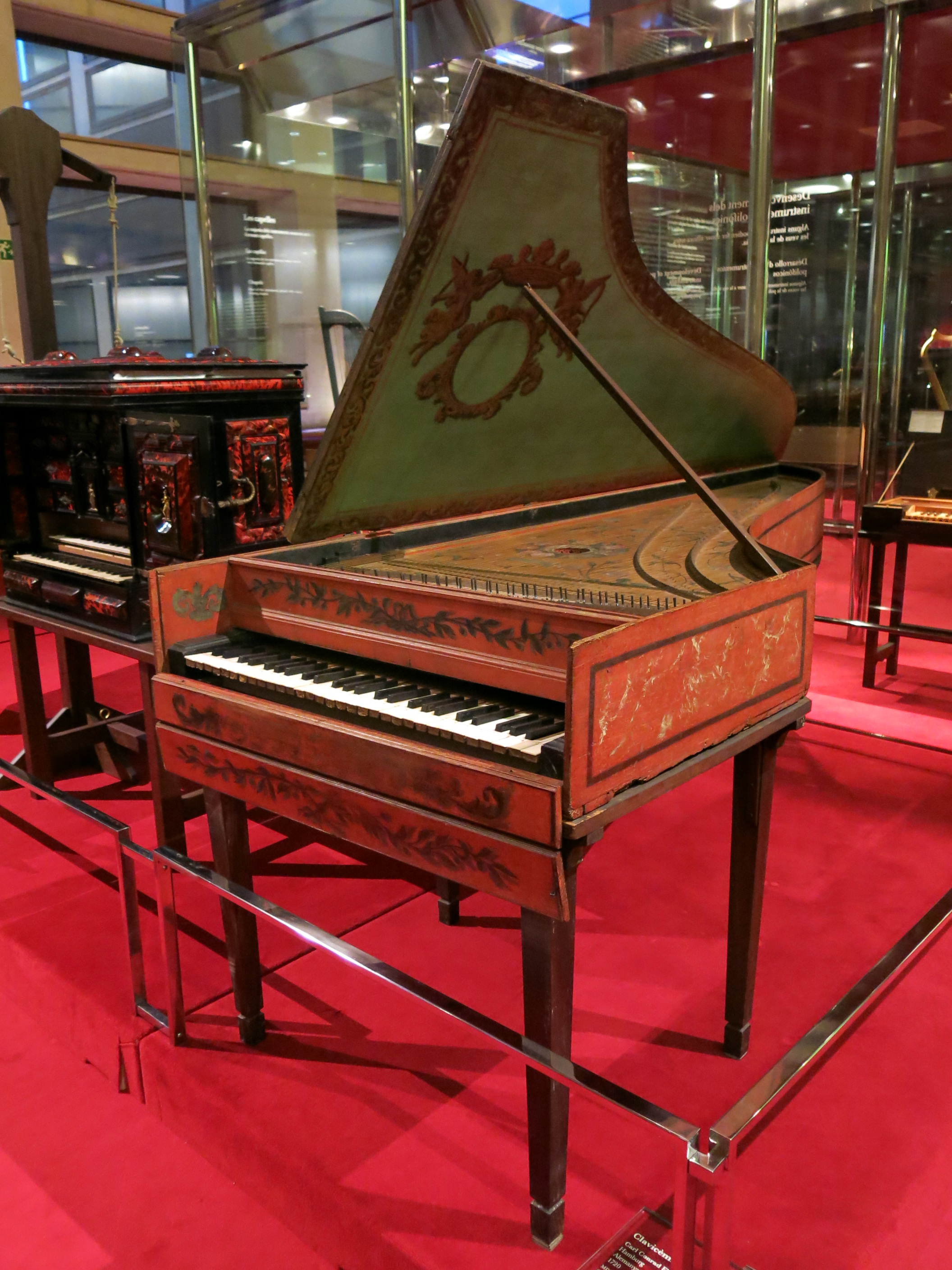 Harpsichord, Carl Conrad Fleischer, Hamburg, 1720, MDMB 420